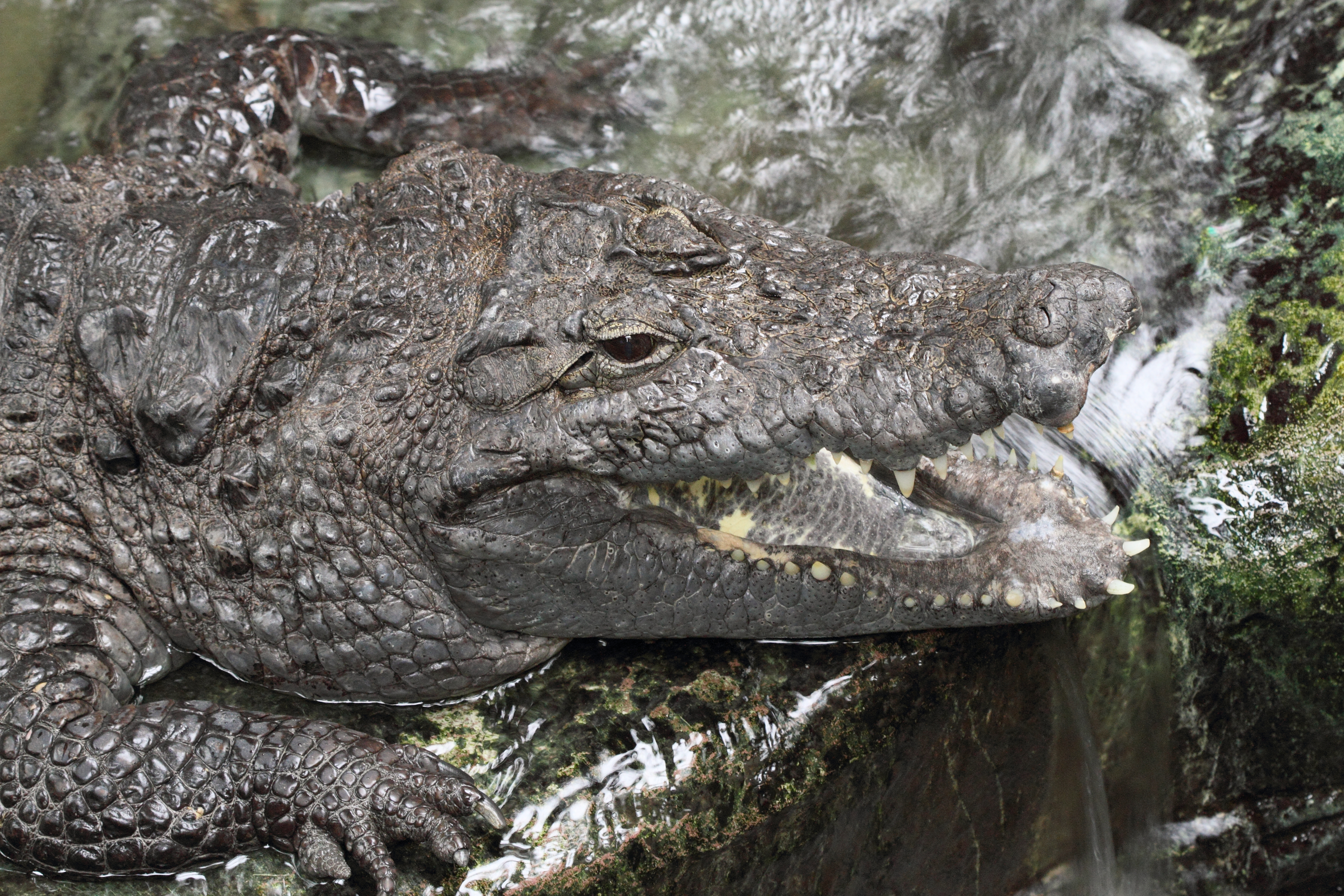 West African crocodile (Crocodylus suchus) showing off its teeth.